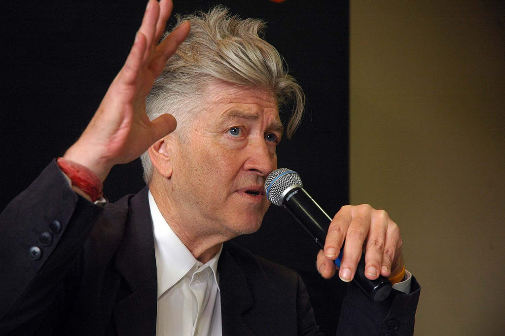 David Lynch, photographed on 10 August 2007.